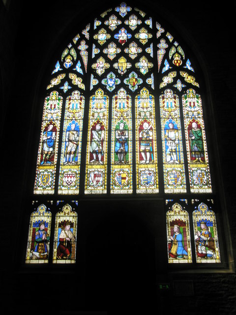 Magnificent stained glass window within St Laurence, Ludlow